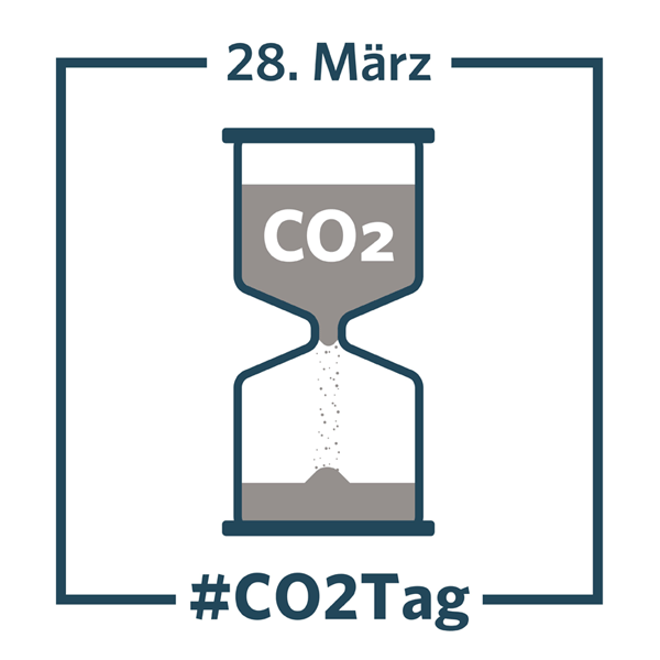 Logo of CO2-Day 2018